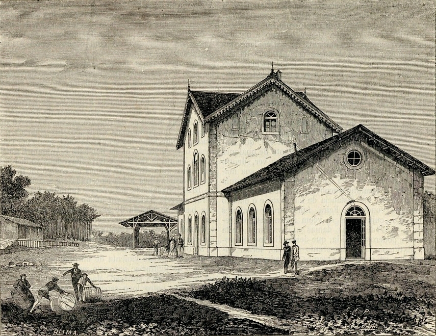 Ovar train station, on the Linha do Norte (Northern Railway), in Portugal. Opened on the 8th of July 1863. This image was originally published on the Archivo Pittoresco n.º 51, 7th year, of 1864, and scanned by the Hemeroteca Municipal de Lisboa.